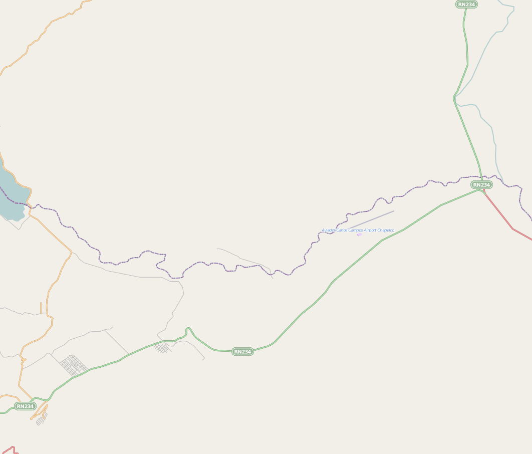 Quilquihue river in its entirety